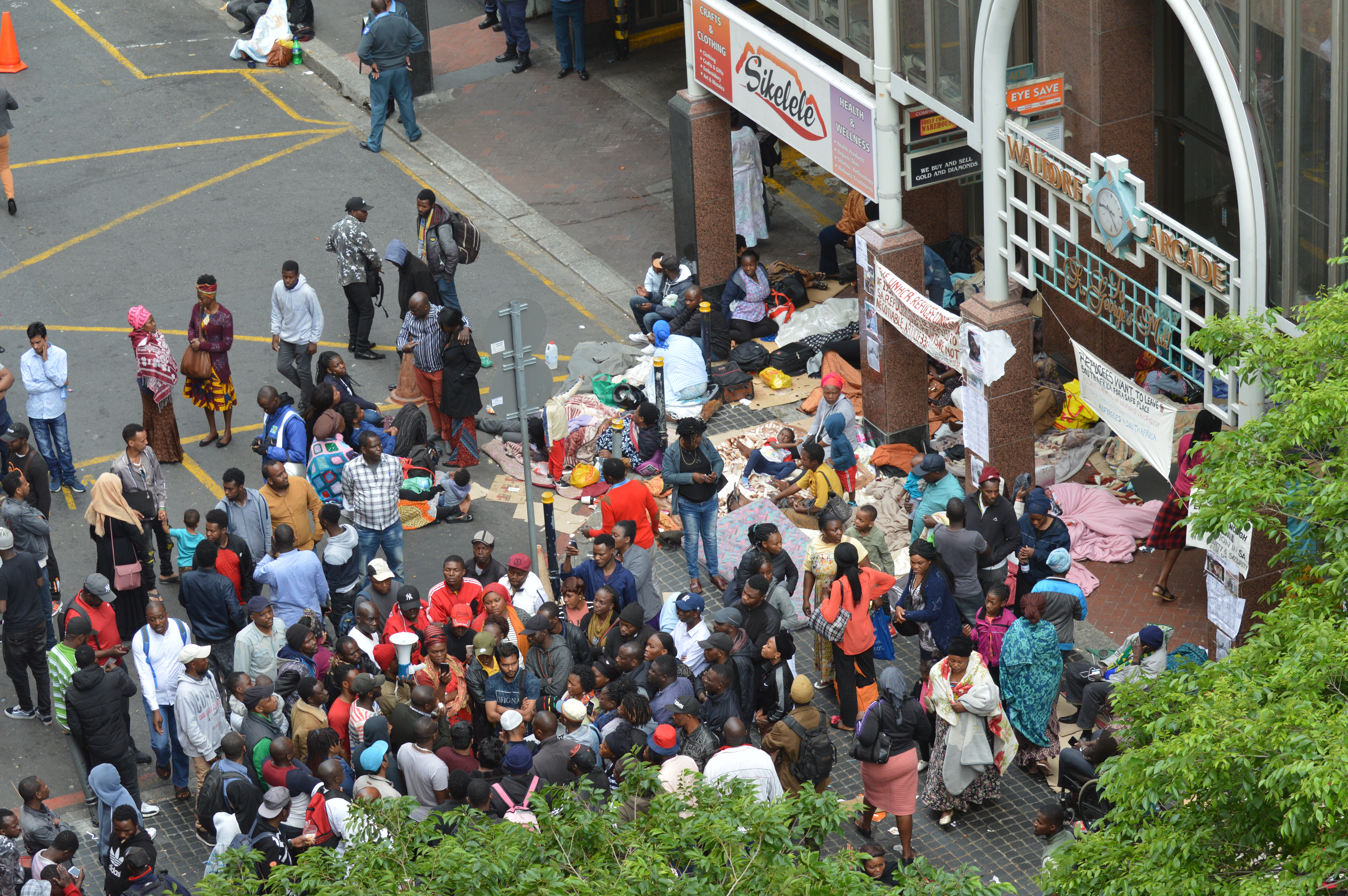 Foreign nationals staging a sit-in (6 days in by time of photograph) at the Cape Town United Nations Refugee offices to demand that their passage back to their home countries be paid for. The sit-in followed the September xenophobic riots in Johannesburg a month earlier.